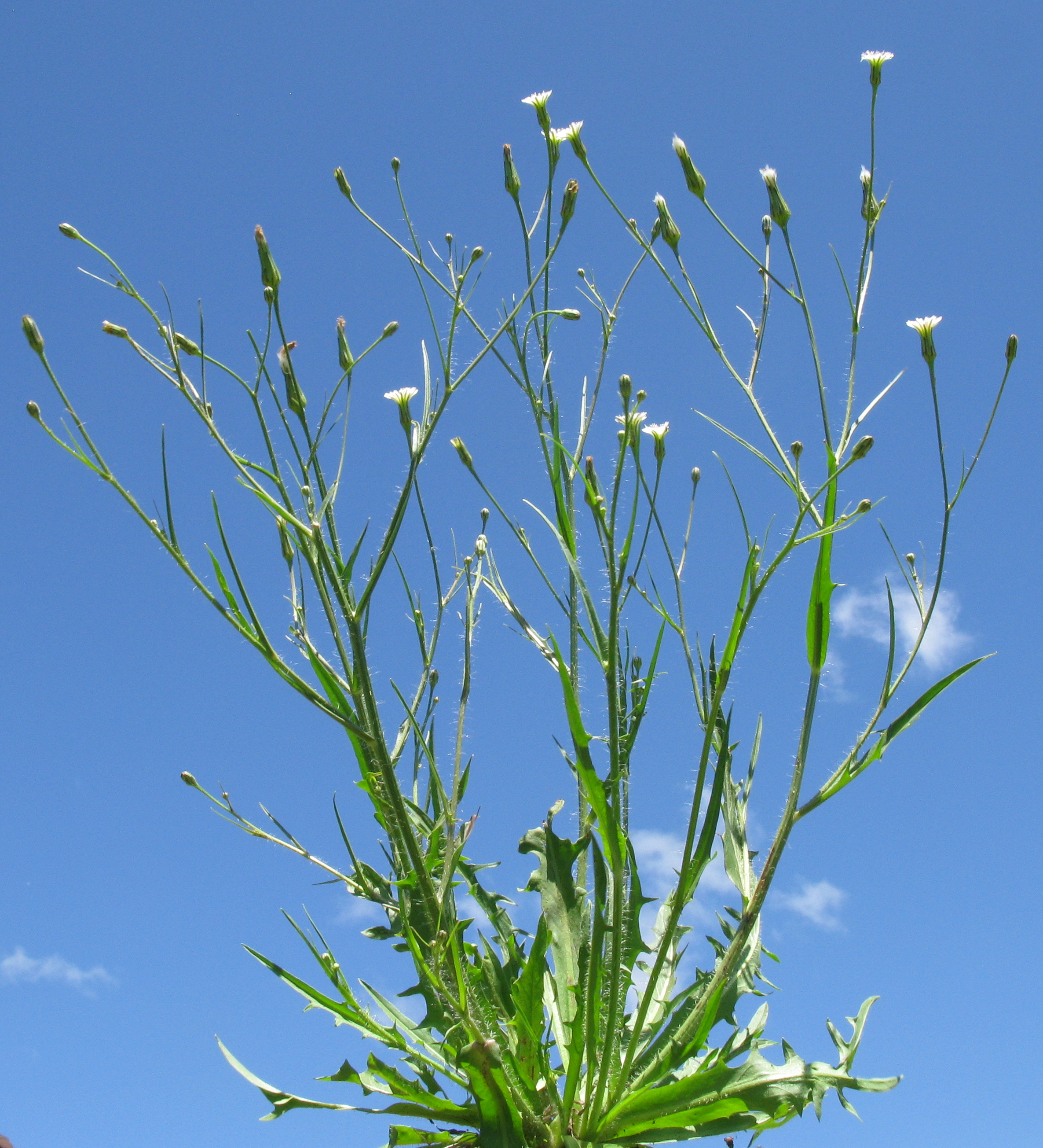 Introduced, perennial herb 10–40 cm tall. Taproots are fleshy and stems are hairless to hairy. Basal leaves form a rosette and are oblong in outline, 5–15 cm long, 15–30 mm wide. The margins are toothed, sinuate to pinnatifid, base narrowed to a broad-winged petiole-like base, and lamina are hairless to hairy (hairs on lower surface of midvein). Cauline leaves (if present) are similar, sessile and reducing upwards. Heads ( 4–10 mm wide) are solitary on branched stems. Florets are ligulate and white. Fruit are achenes with a slender beak and a pappus with 1 row of plumose bristles. Flowering is mostly in spring, but also summer and autumn. Grows in disturbed areas and lawns.